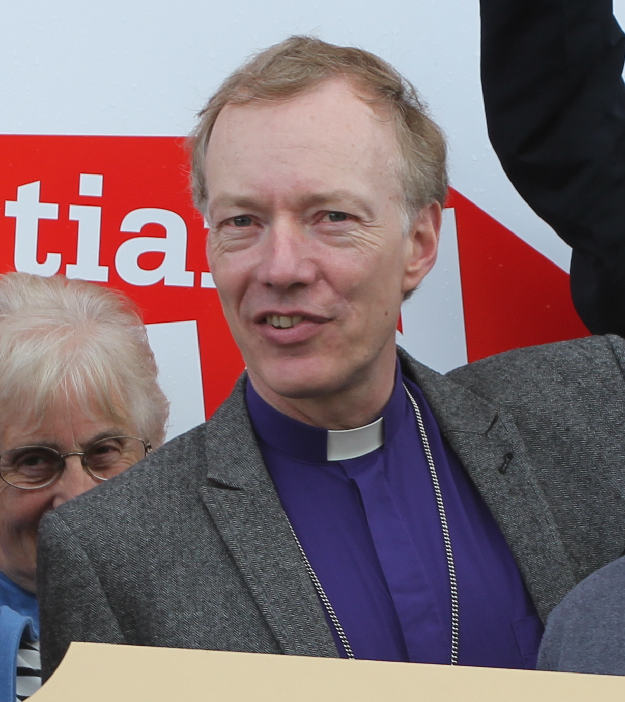 Paul Uppal, Bishop Clive Gregory and supporters cheer for Tax Justice